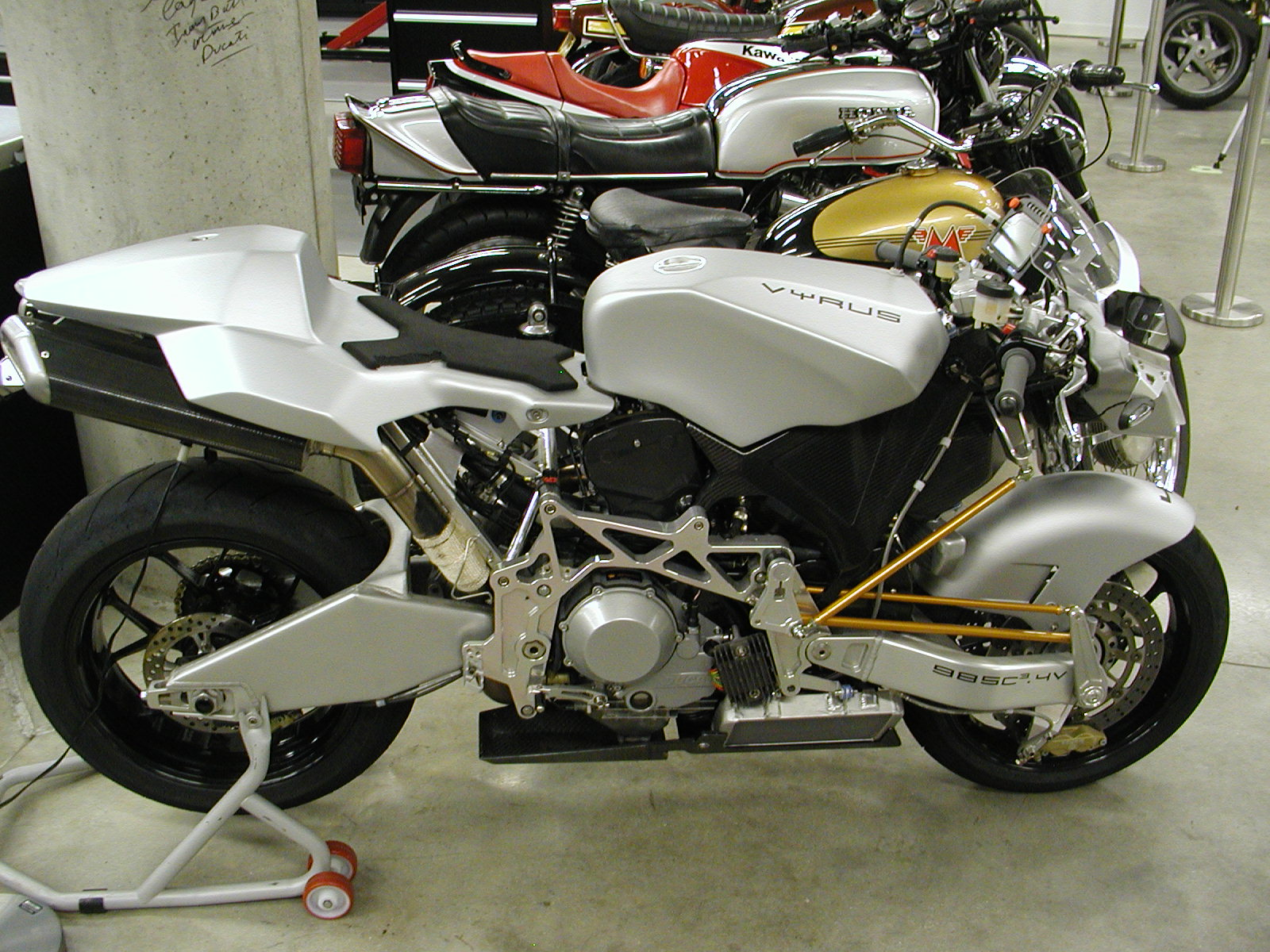 Barber Motorcycle Museum - Oct 22 2006 (58) VYRUS 985 C3 4V